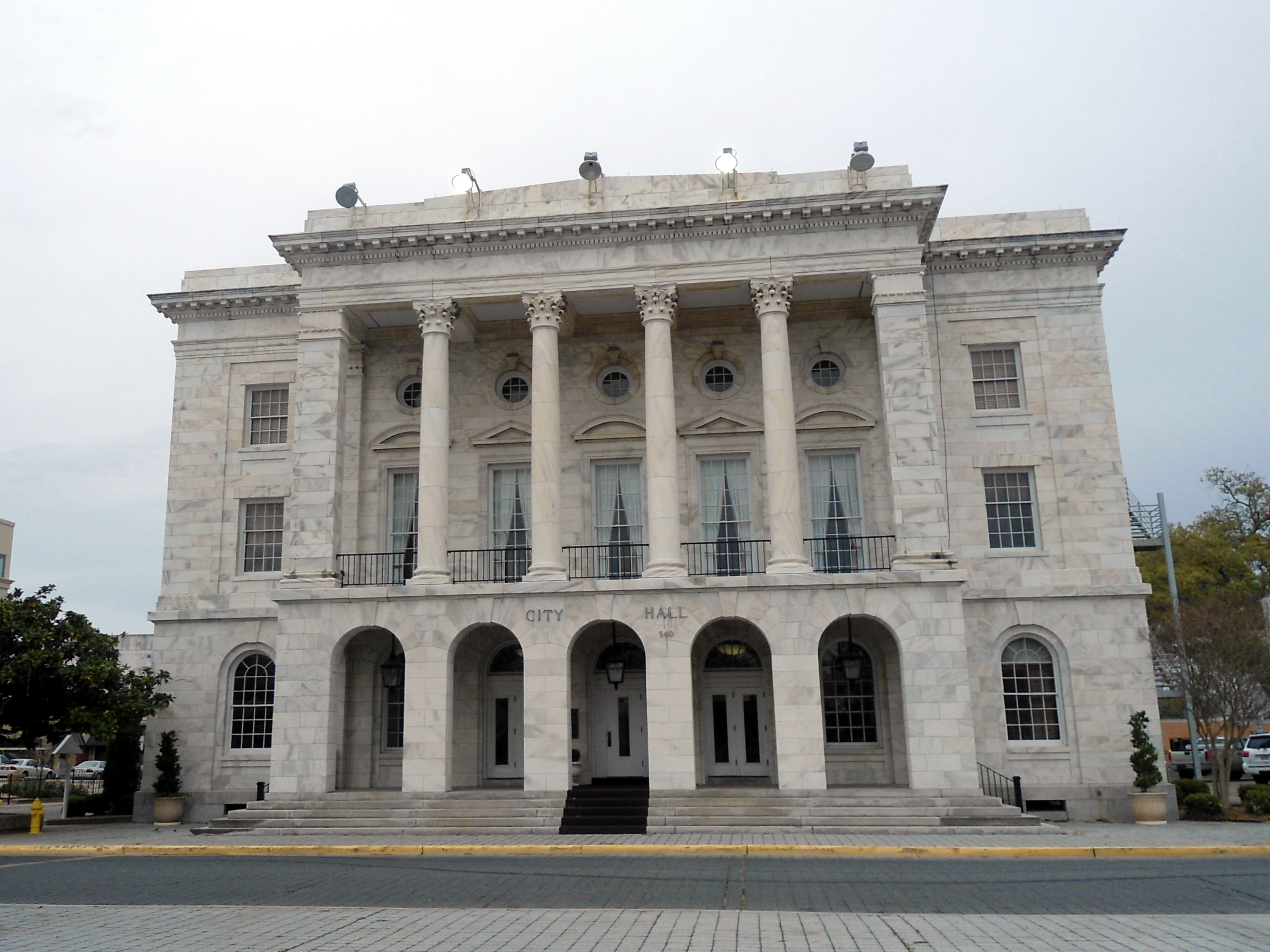 (Old) U.S. Post Office, Courthouse, and Customhouse, also known as Biloxi City Hall. Located at 140 Lameuse Street, Biloxi, Mississippi, USA. Constructed 1905-08 in Neoclassical Architectural Style.